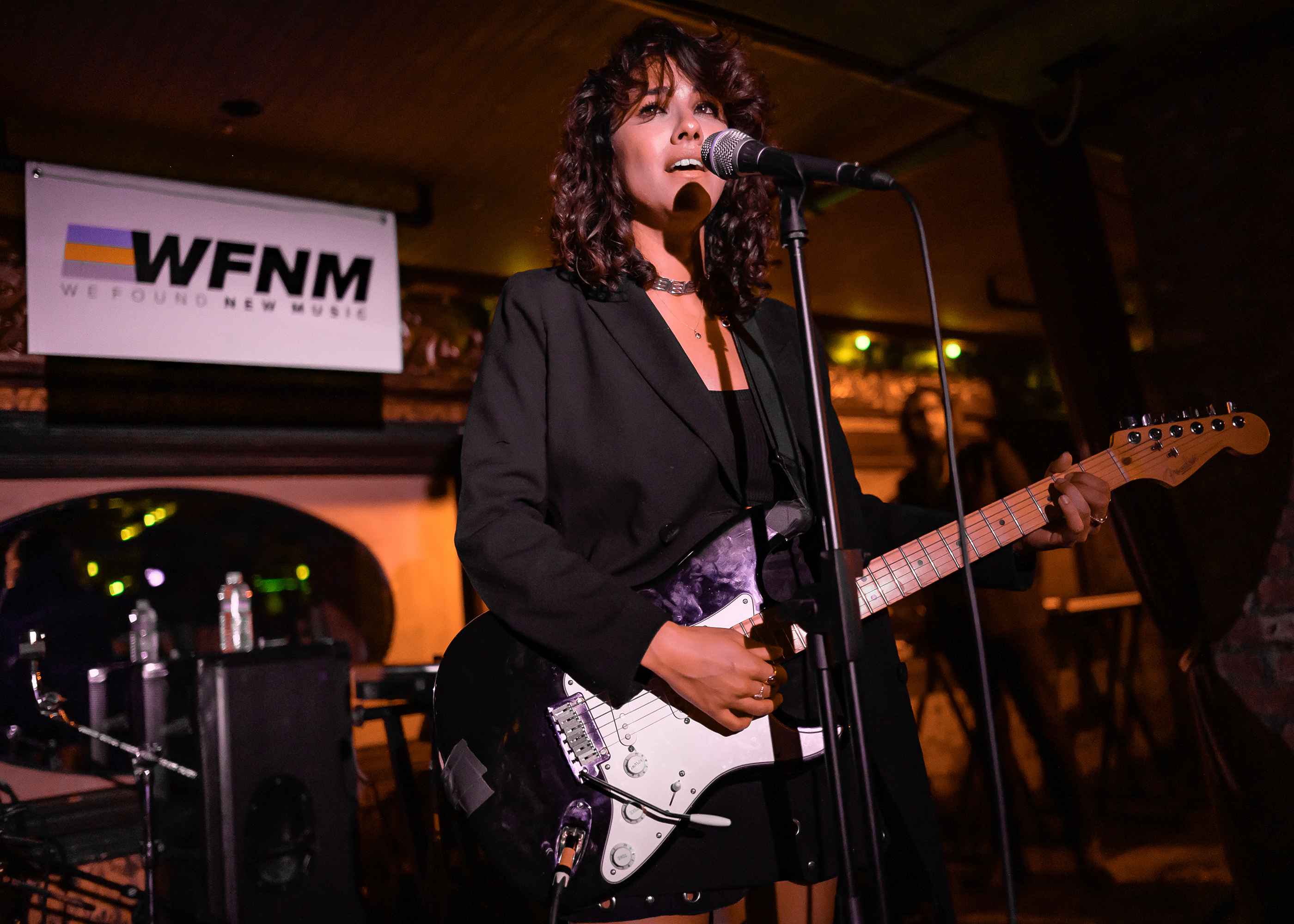 Charlotte OC performing live at Madame Siam in Hollywood, Los Angeles, California, on Tuesday, April 2, 2019.